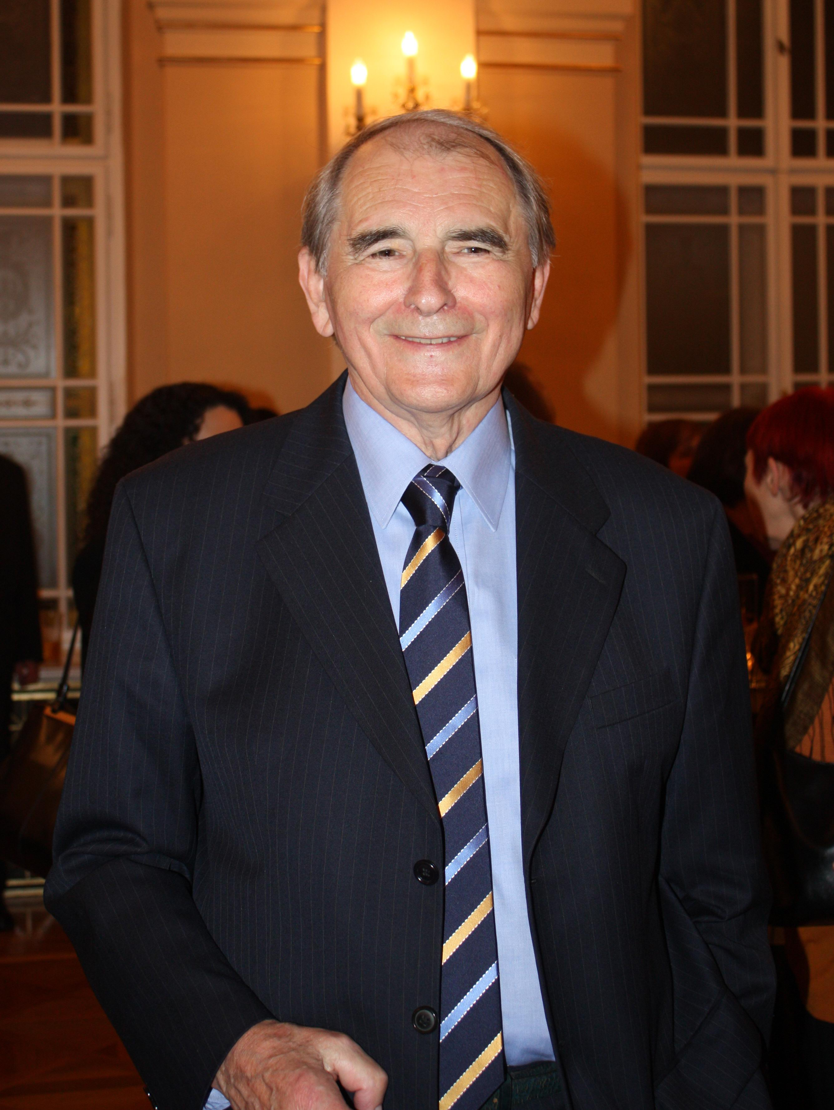 Jaroslav Šedivý - Czech diplomat and former foreign minister of the Czech republic.